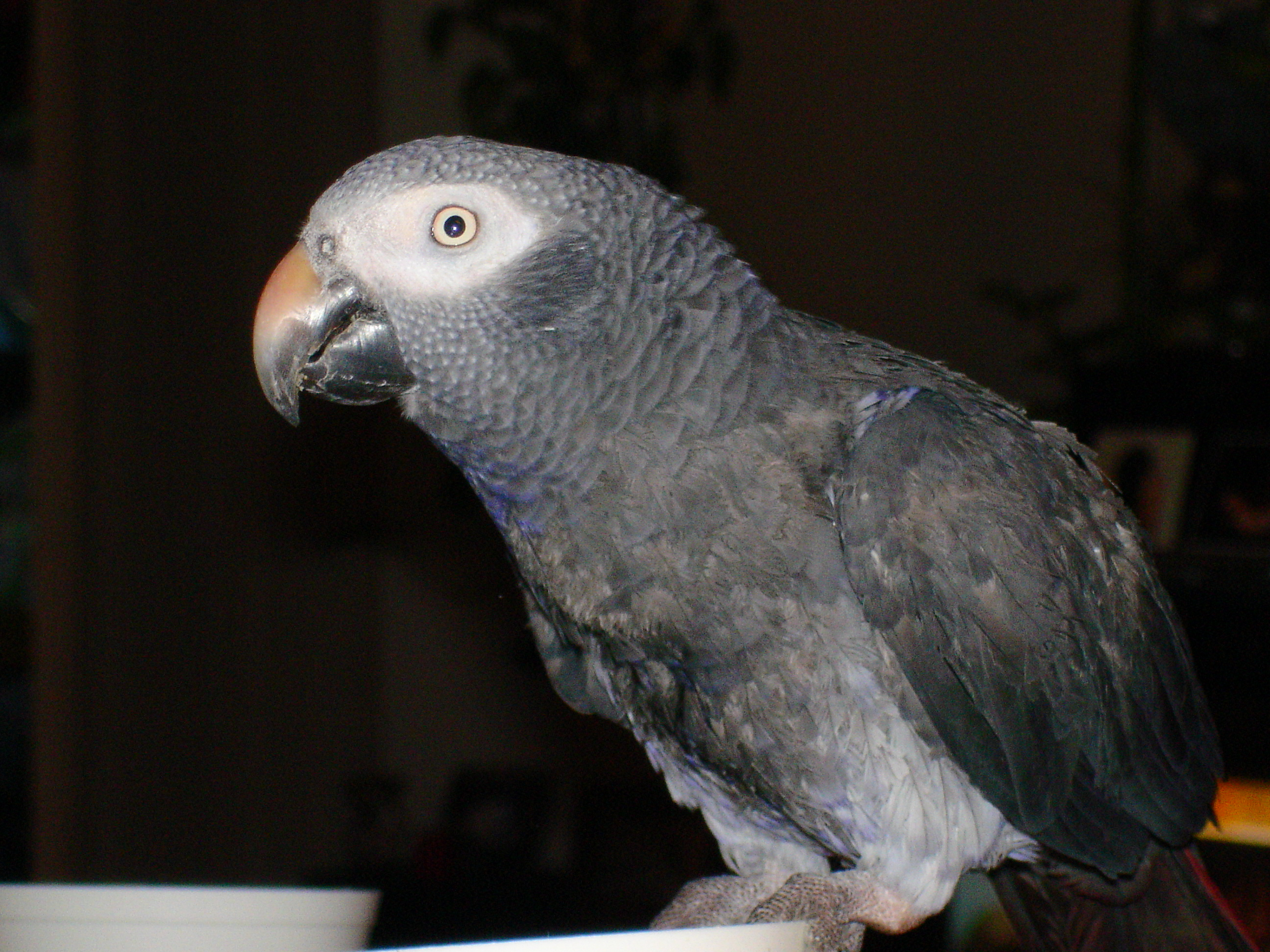 Timneh African Grey Parrot (Psittacus erithacus); subspecies (Psittacus erithacus timneh) Side of upper body.